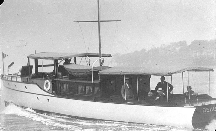 The motorboat Beaumere, owned by vaudeville impresario Edward Franklin Albee II (1857-1930), prior to her service as the United States Navy patrol vessel USS Beaumere II (SP-444).